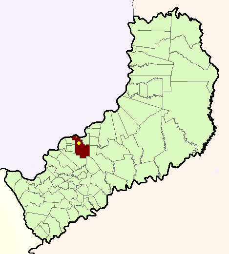 A map of Jardín América's municipio in Misiones province, Argentina. The big point is Jardín América city, the little one is Oasis town.